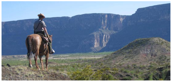 Park ranger on a horseback patrol near Santa Elena Canyon in Big Bend National Park in Brewster County, Texas